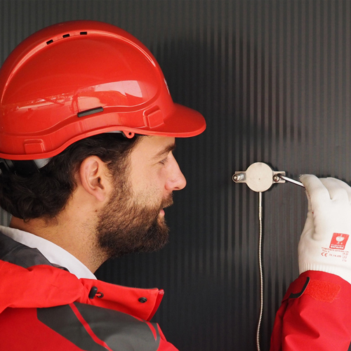 Industrial heat flux sensor (Hukseflux IHF01) as used in the field